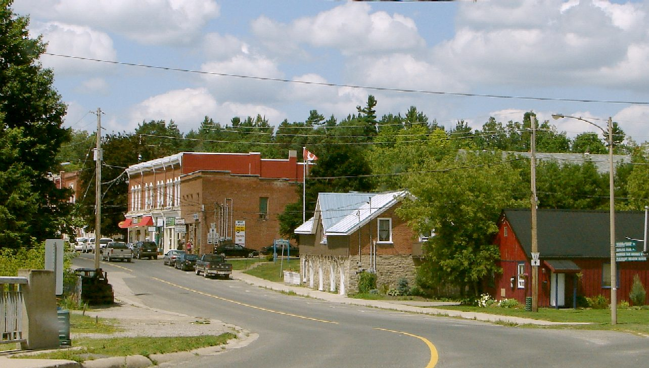 Norwood (Asphodel-Norwood Township), Ontario, Canada